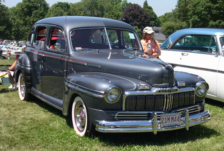 1947 Mercury sedan. The 1947 & 1948 models have chromed grille surrounds as opposed to the painted surrounds used on the 1946 Mercury. Source: Photographed at the Bay State Antique Automobile Club's July 10, 2005 show at the Endicott Estate in Dedham, MA by User:Sfoskett